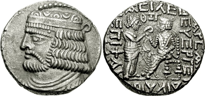 Coin of Vardanes II, an Parthian pretender.